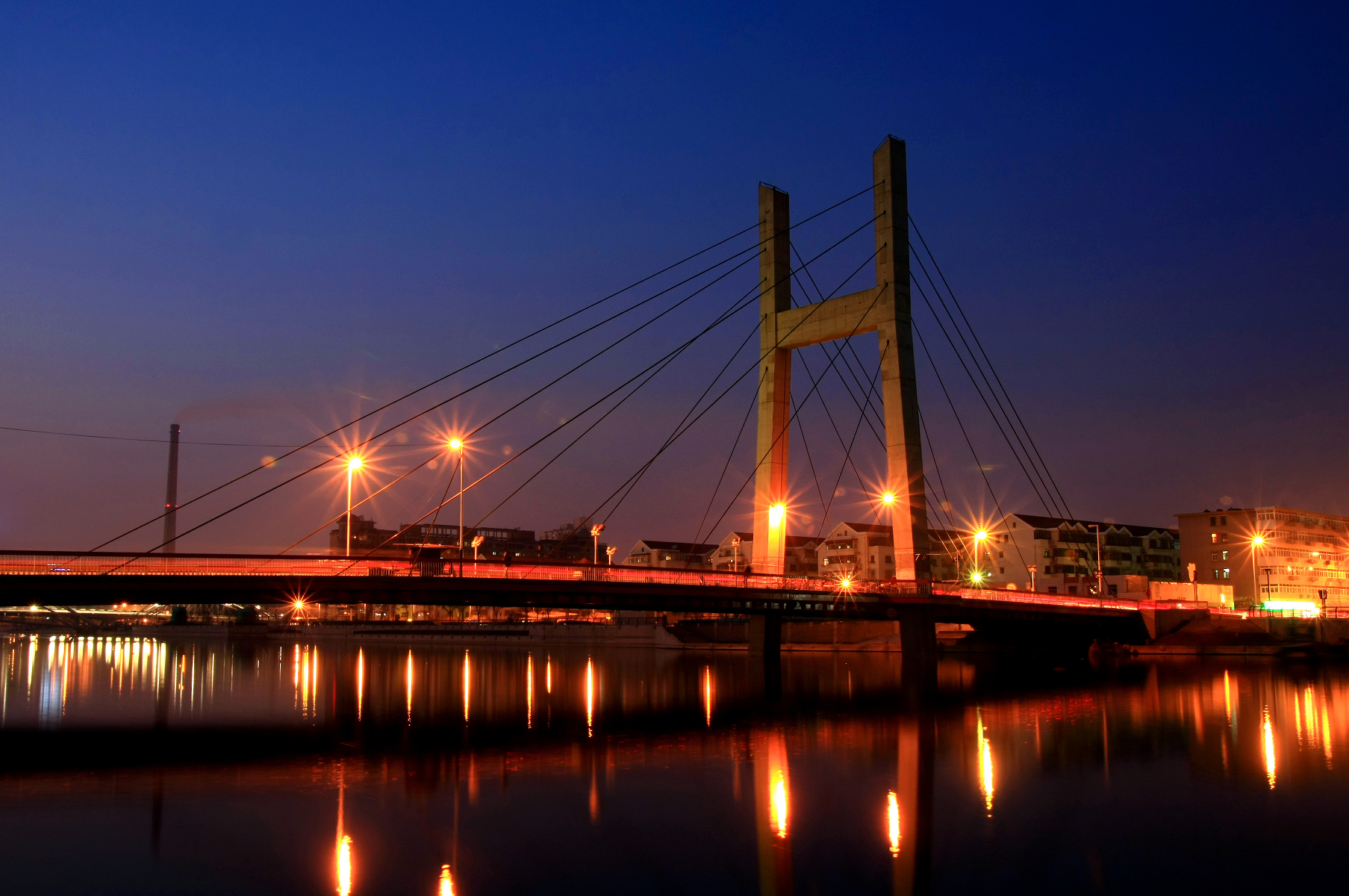 Liuzhuang Bridge in Tianjin